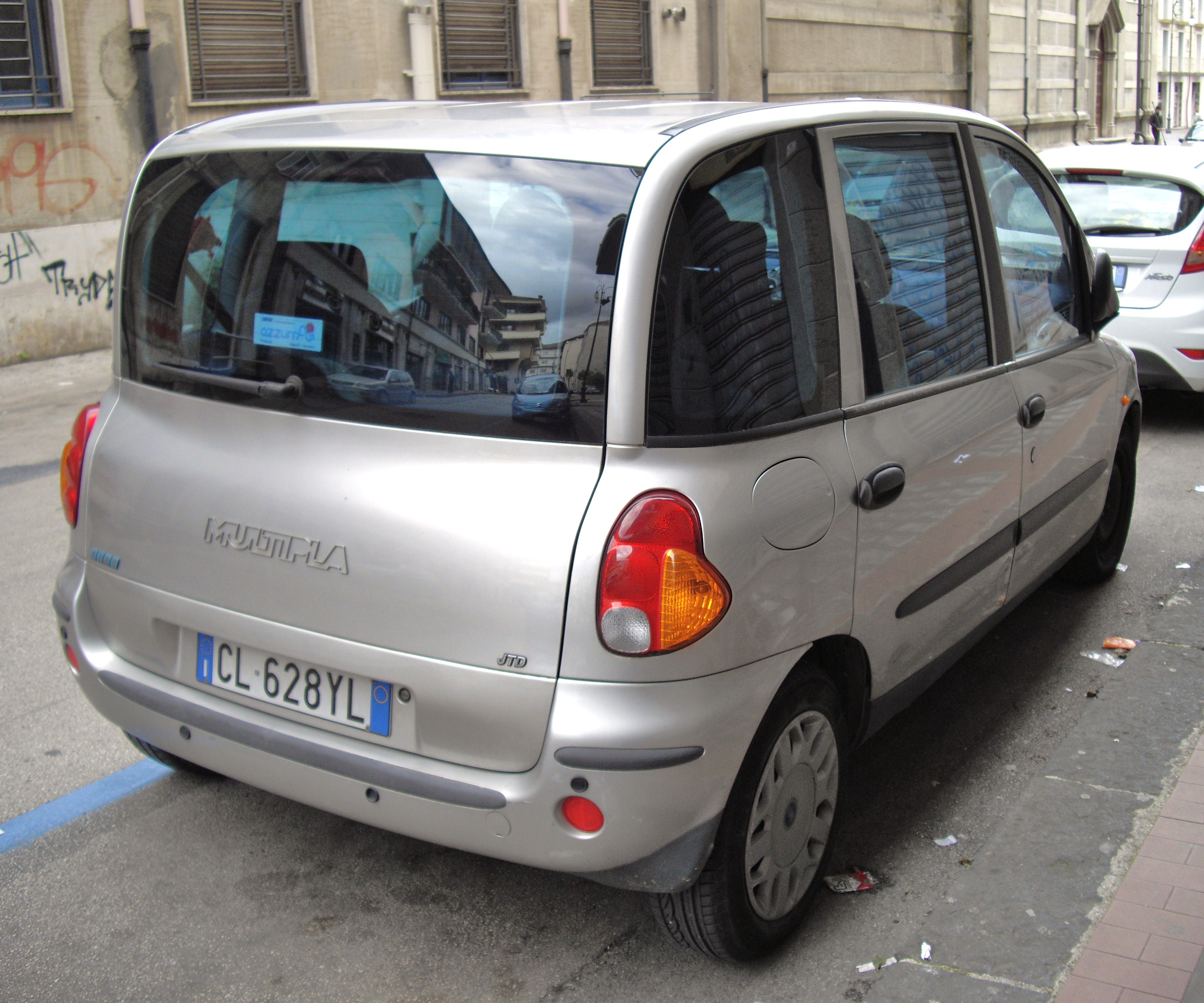 Fiat Multipla